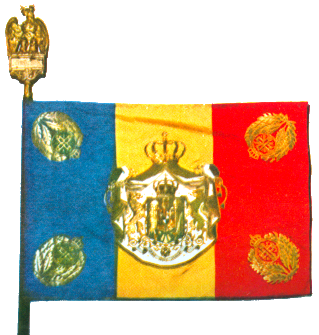 Romanian Army flag used during WWII. Mihai I model.